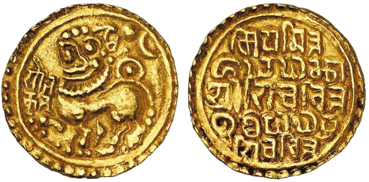 This picture depicts a gold coin from the Kadamba era dating back c.1147-1187 AD issued by the Kadamba king of Goa,Shivachitta paramadideva